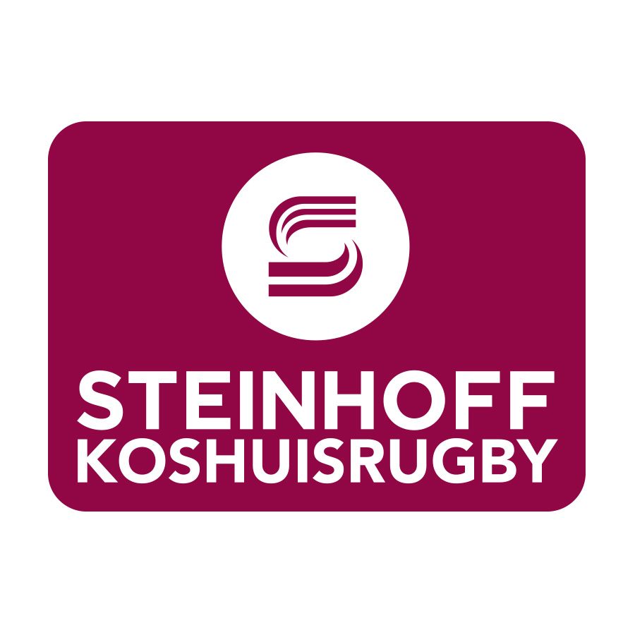 Logo of Steinhoff rugby